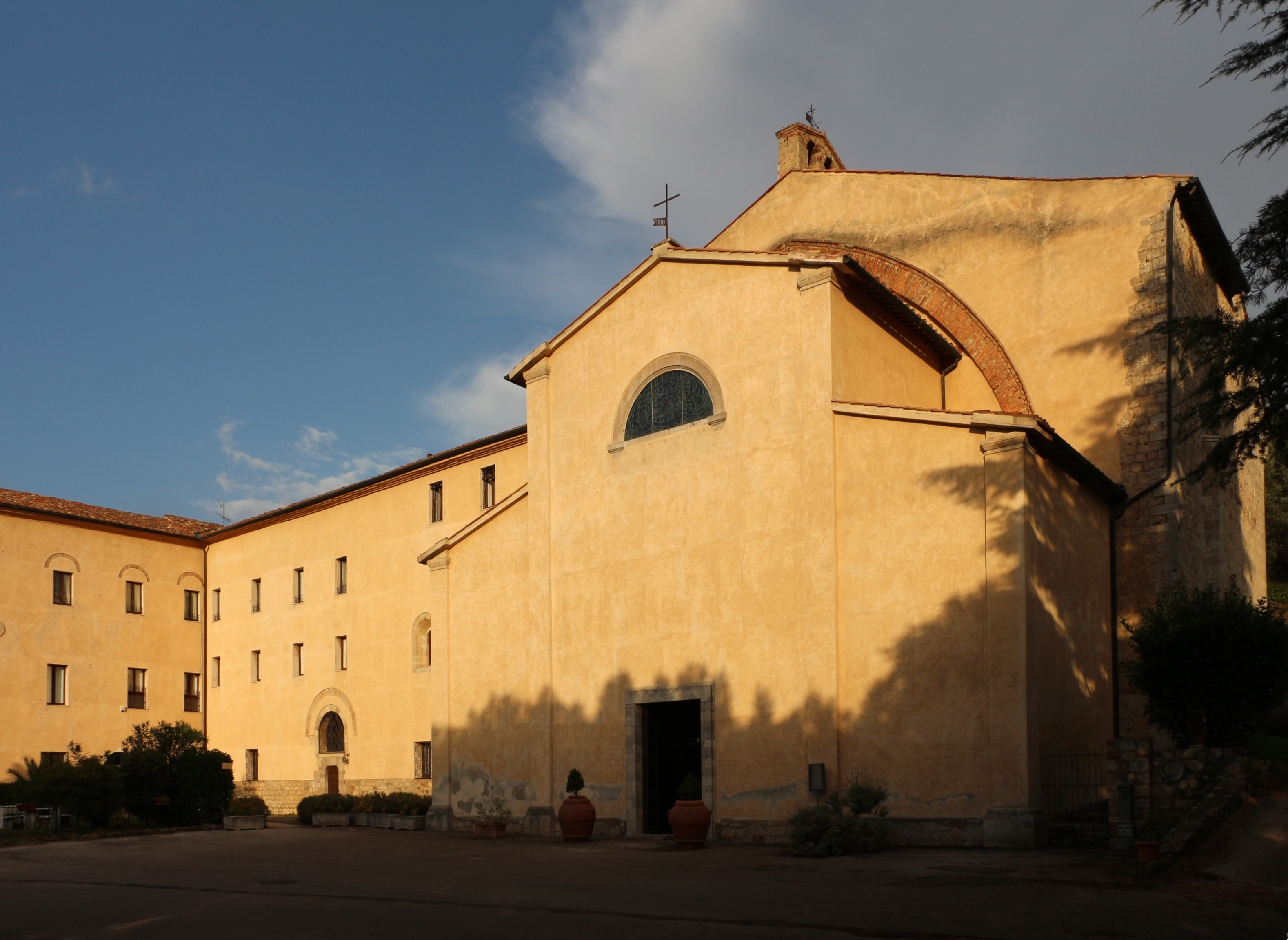 San Francesco (Massa Marittima)